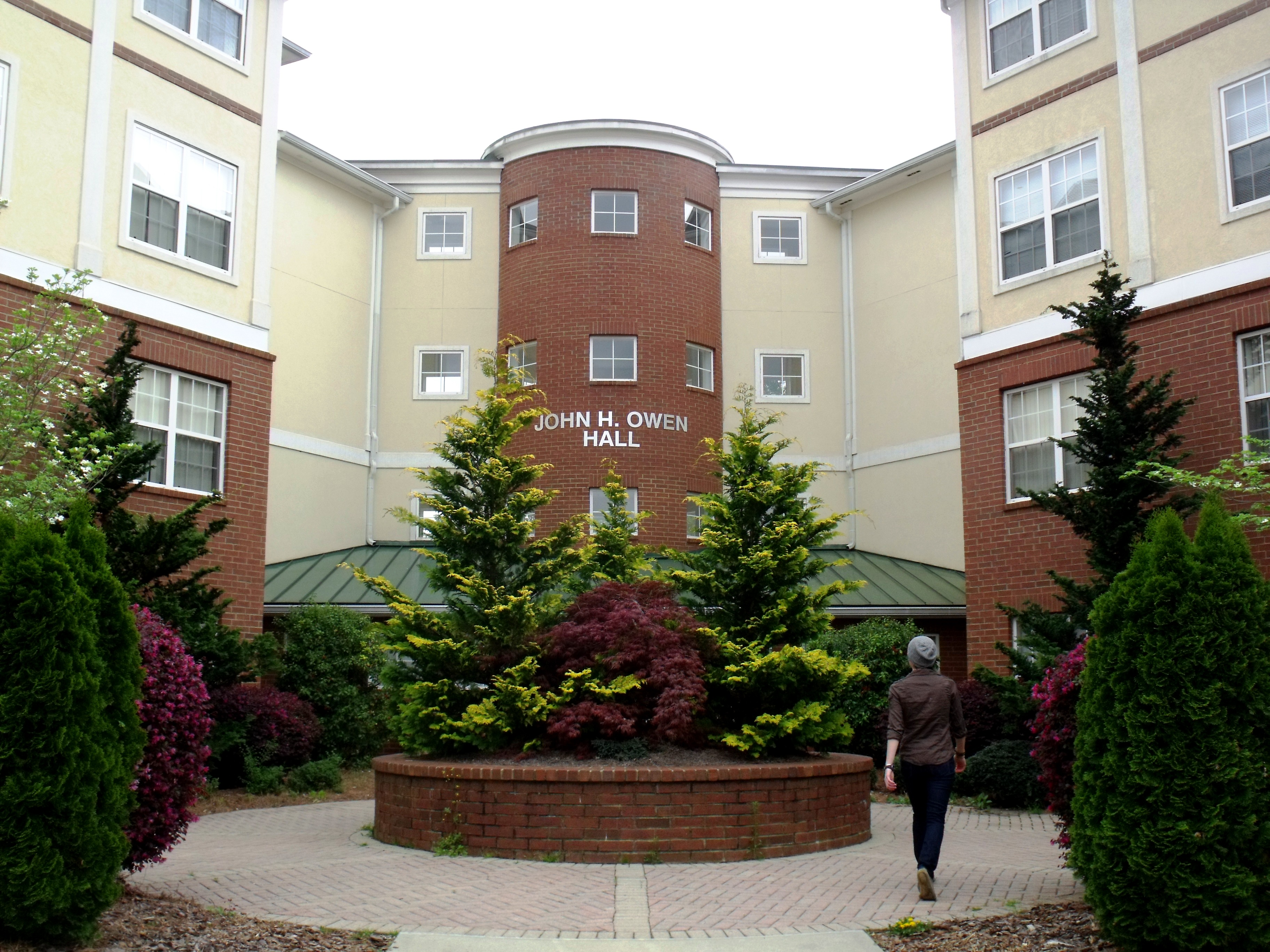 The Owen's Hall student dormitory at the University of North Georgia, Dahlonega, Georgia was named in honor of the university's 12th president John H. Owen. [1][2]